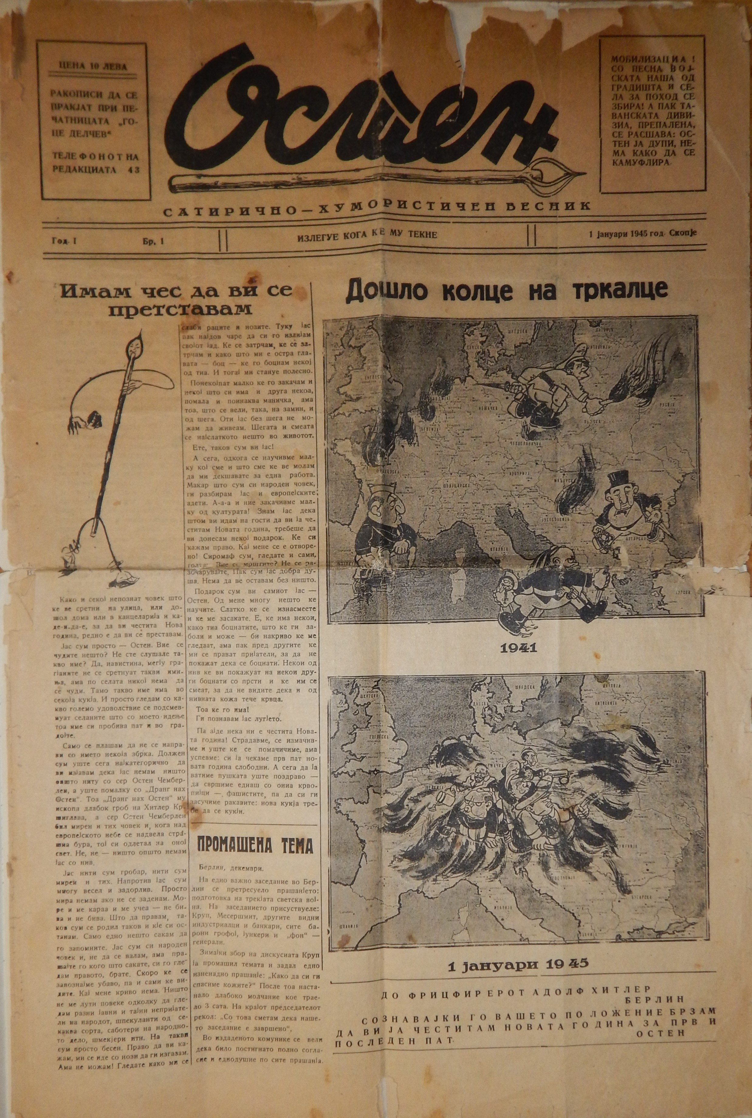 Magazine Osten, number 1